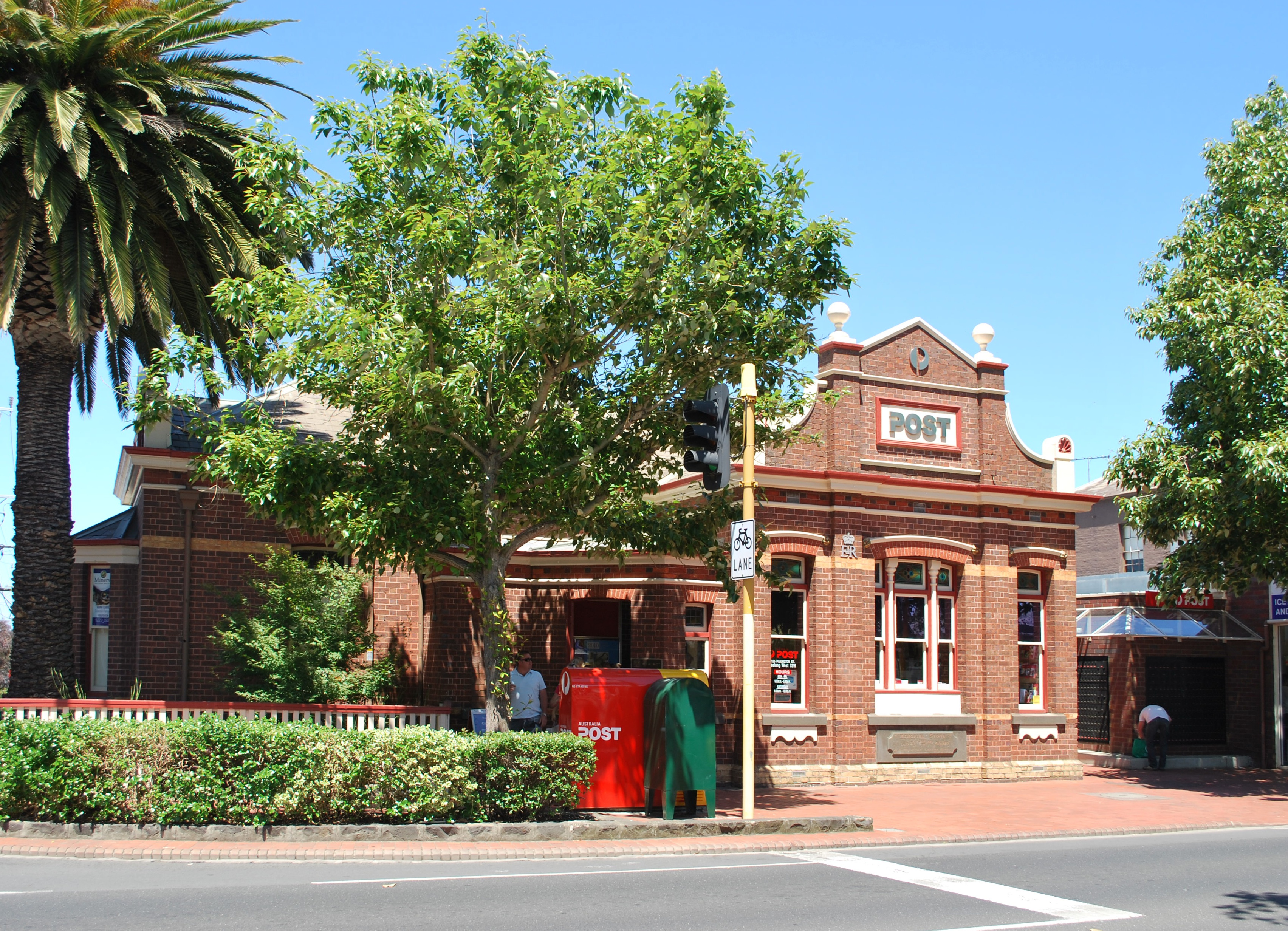 Post office at Geelong West, Victoria